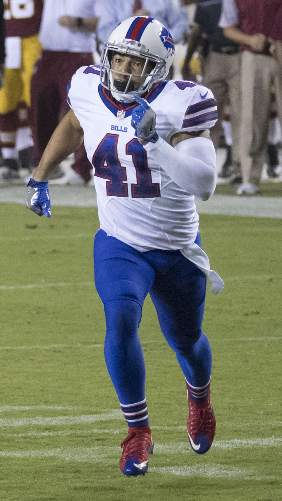 Bills at Redskins 8/26/16